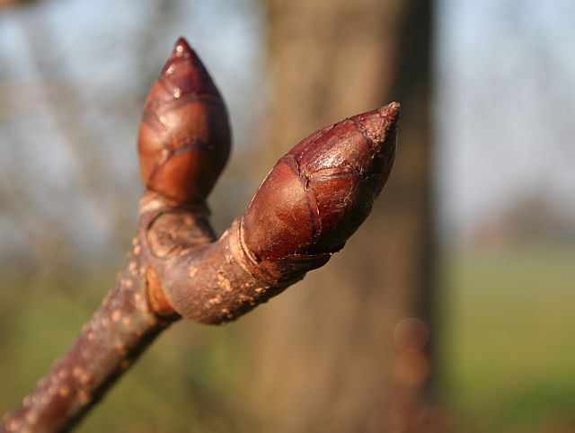 Chestnut Bud Swelling in the February sunshine in preparation for the spectacular flower display in late spring.